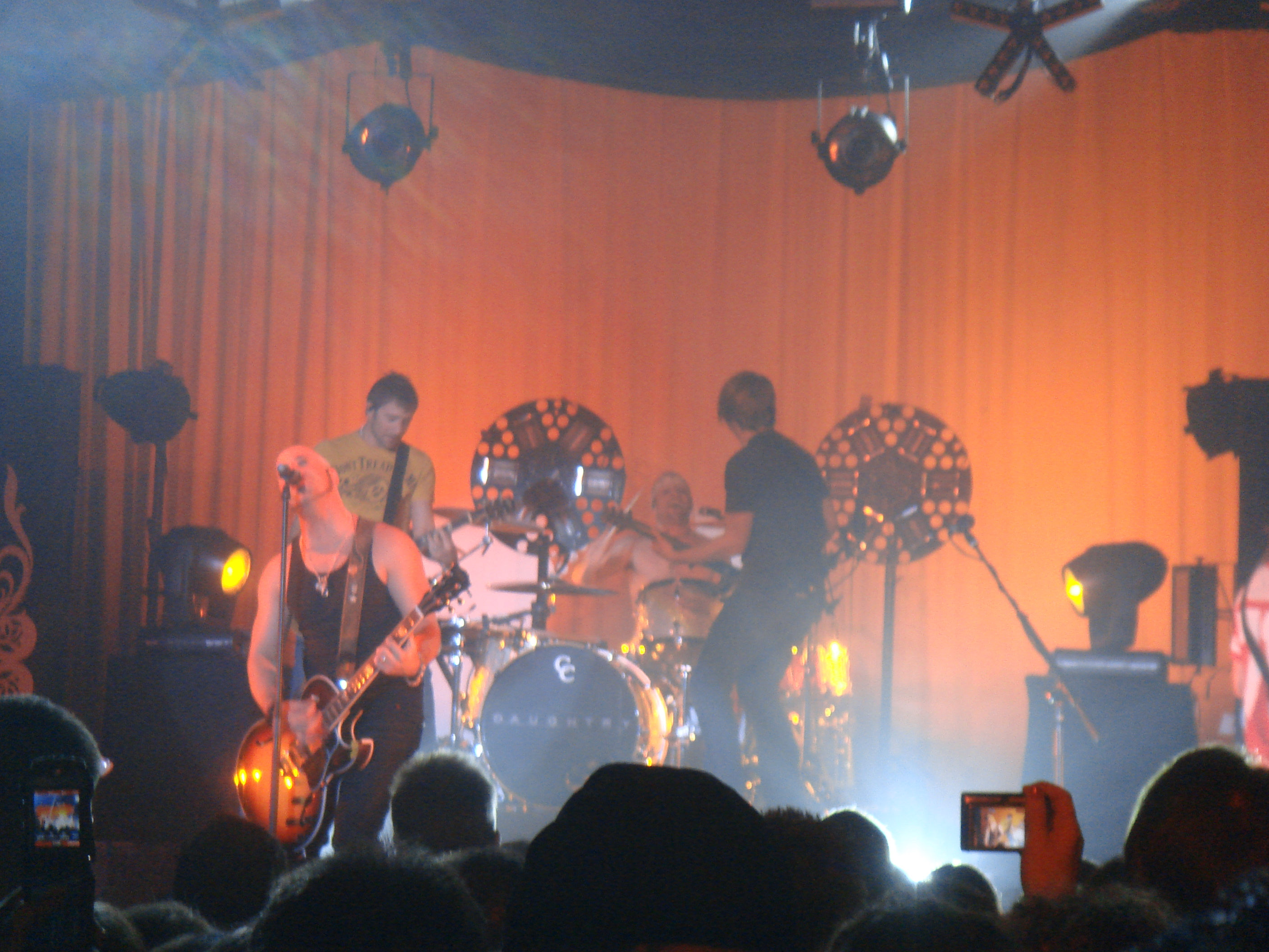 Daughtry performing in Nokia Theatre Times Square in NYC 12-5-07